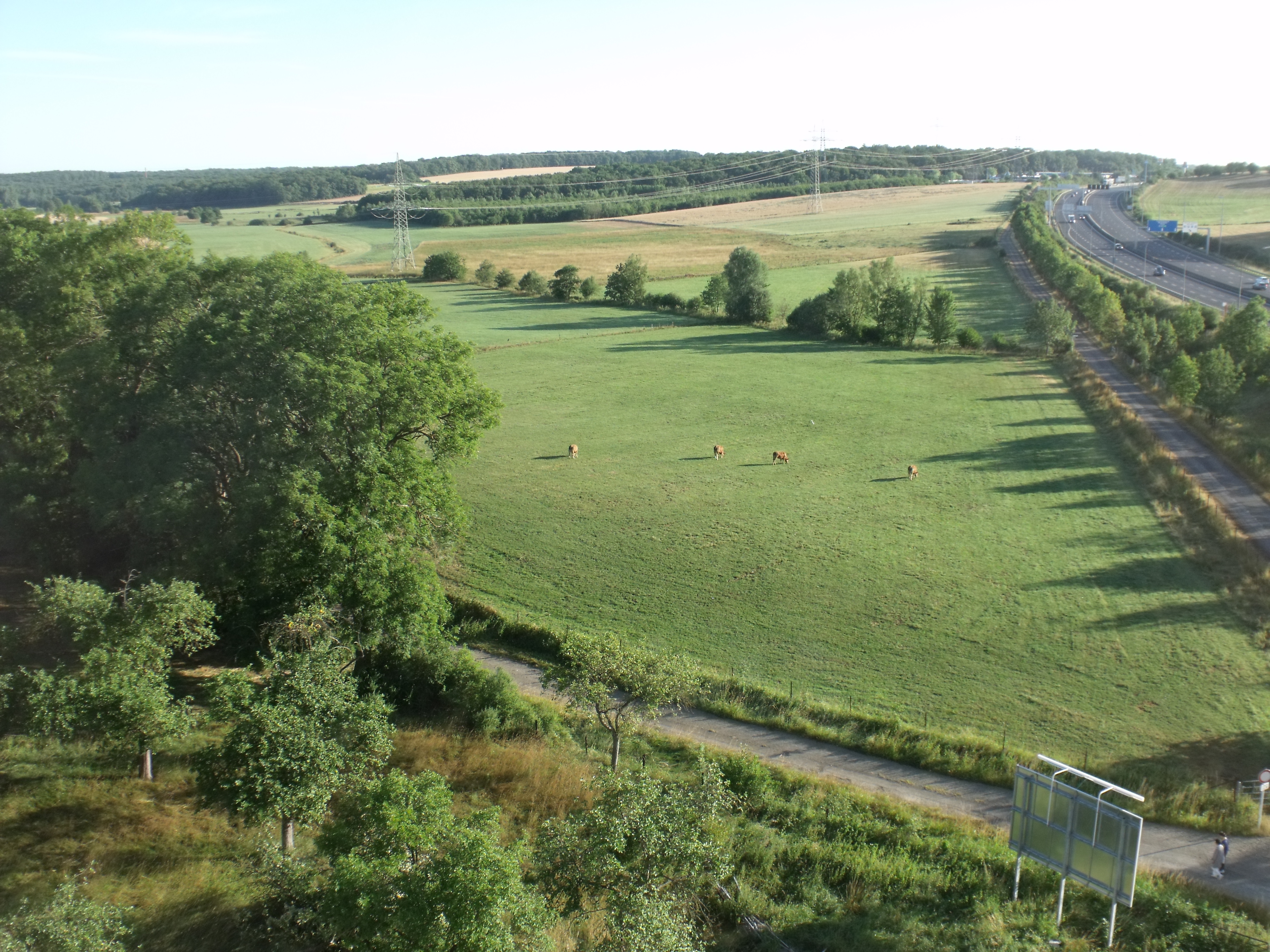 Cows in the countryside by the A3 motorway, in Livange commune, Luxembourg.